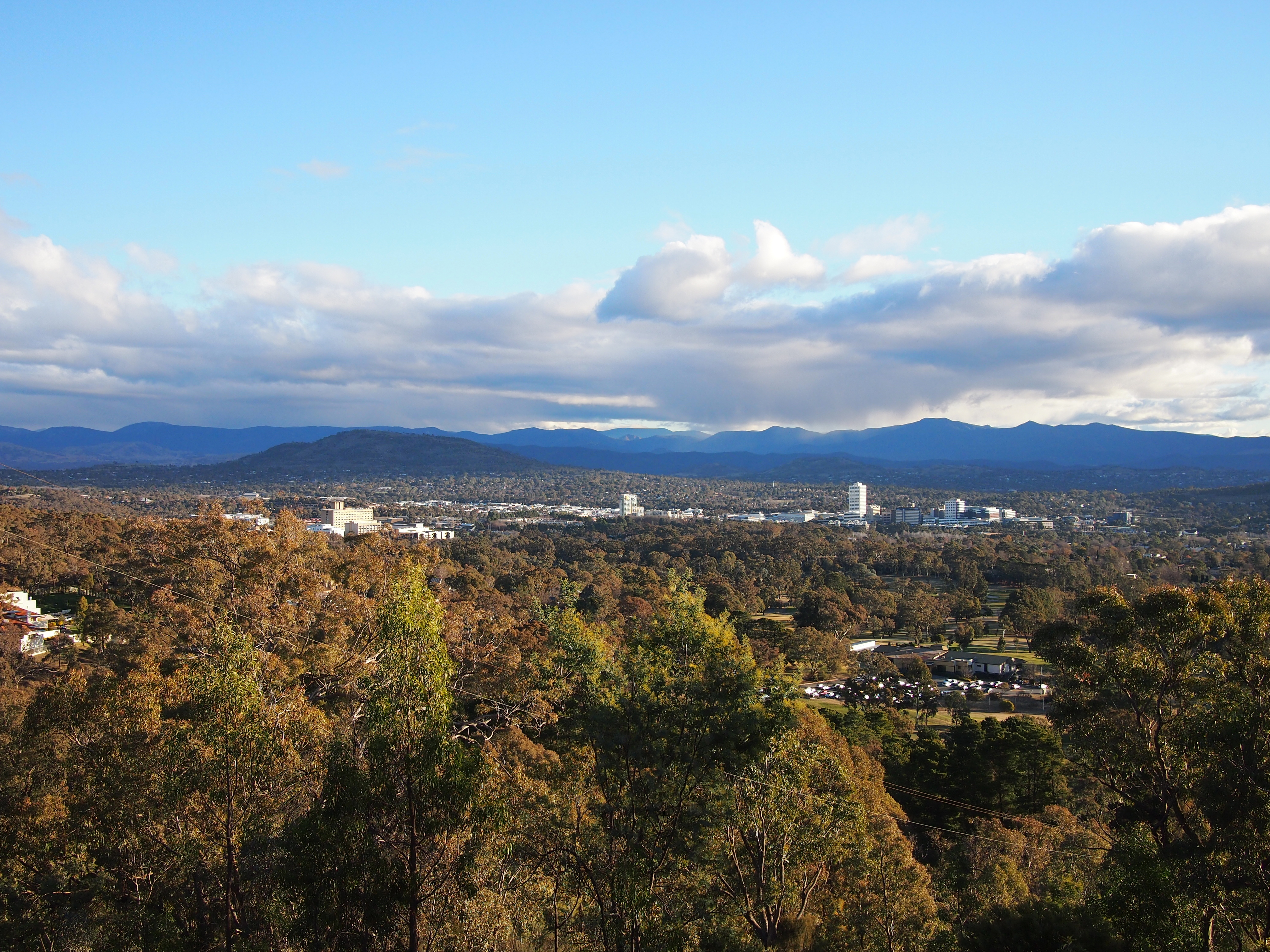 The Woden Valley viewed from Red Hill